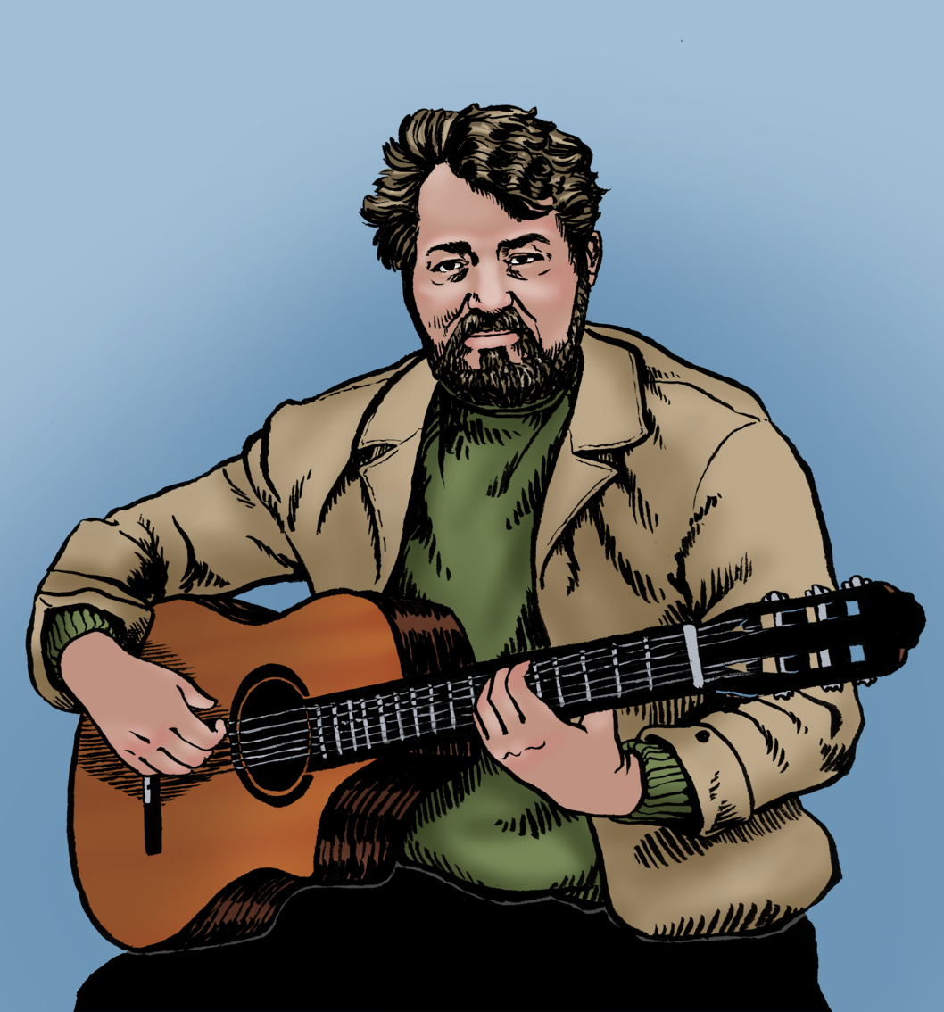 Portrait of singer-songwriter, poet and actor, Cornelis Vreeswijk.